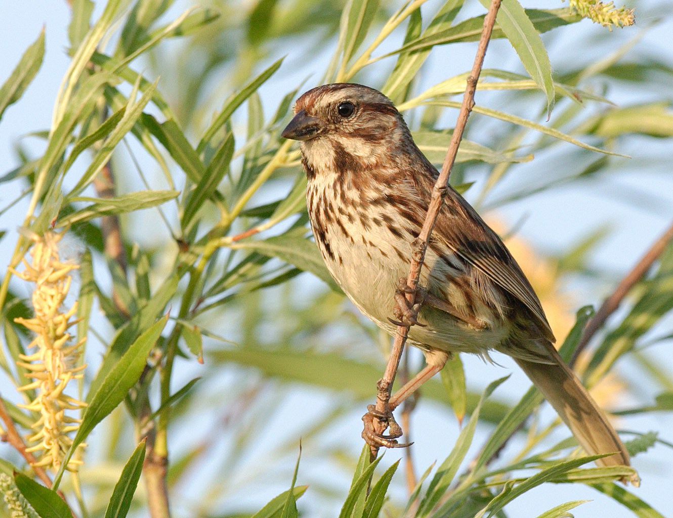 Song Sparrow (Melospiza melodia), Whitby, Ontario (Canada).